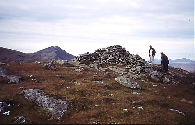 Beinn Dubhchraig The summit with Beinn Laoigh (Ben Lui) in the distance.